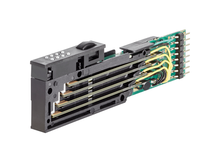 Internal braille display element. Piezo crystal braille display cell.